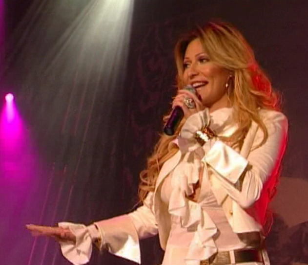 Ceca concert June 2006 at Usce taken from audience.